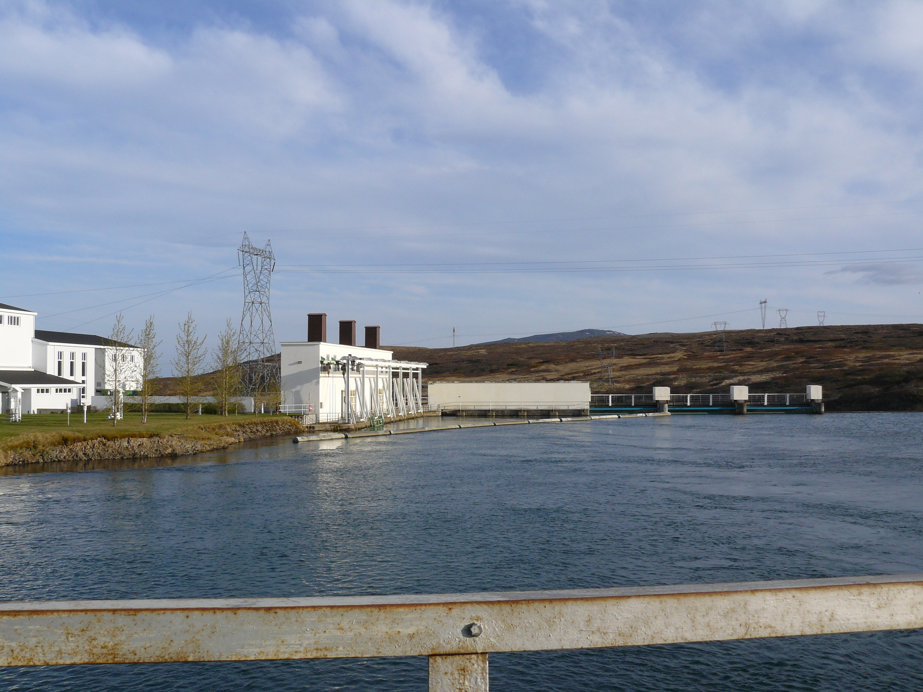 Hydro Electric Power Station at Ýrufoss